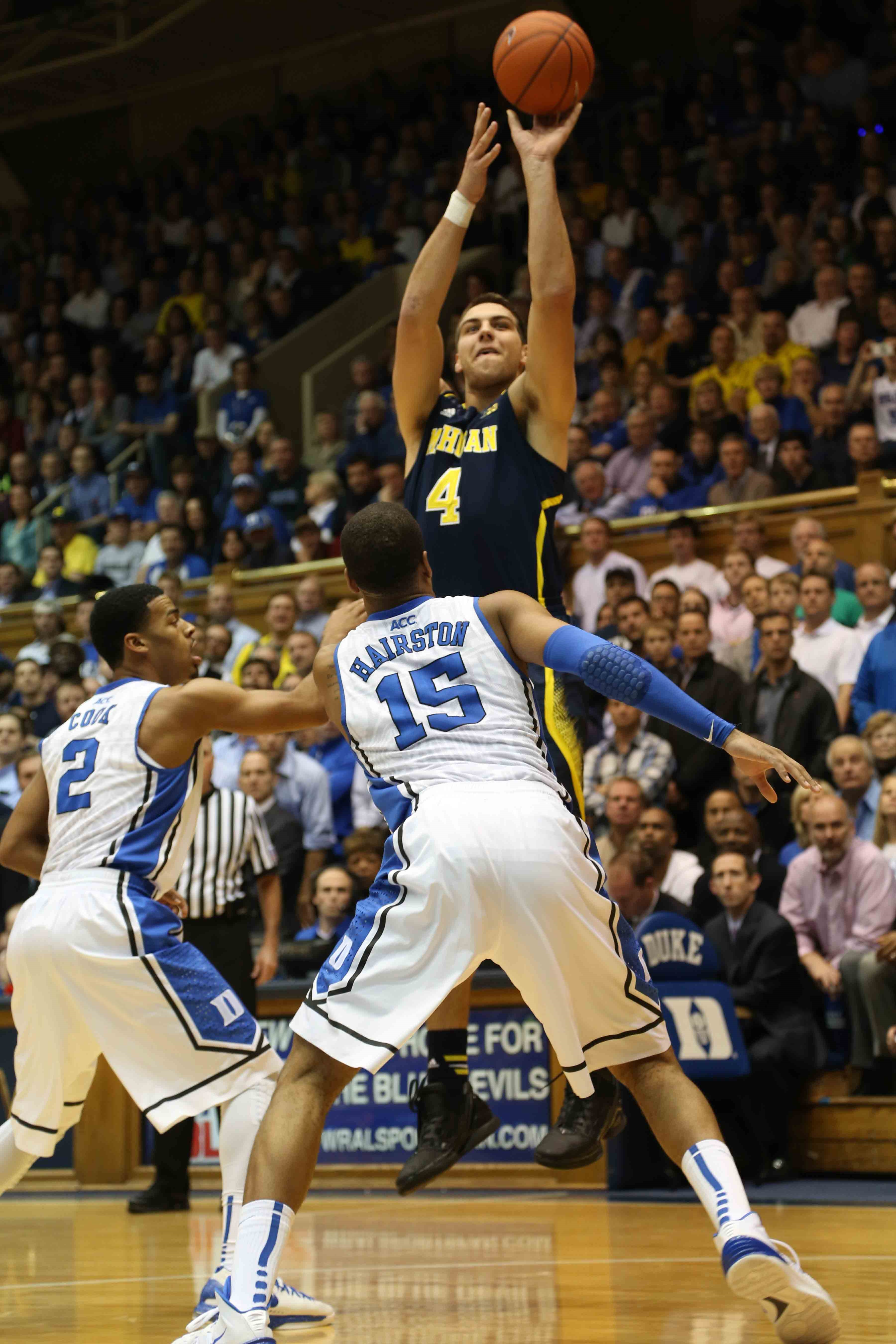 Mitch McGary shoots against Quinn Cook and Josh Hairston in the Duke–Michigan basketball rivalry